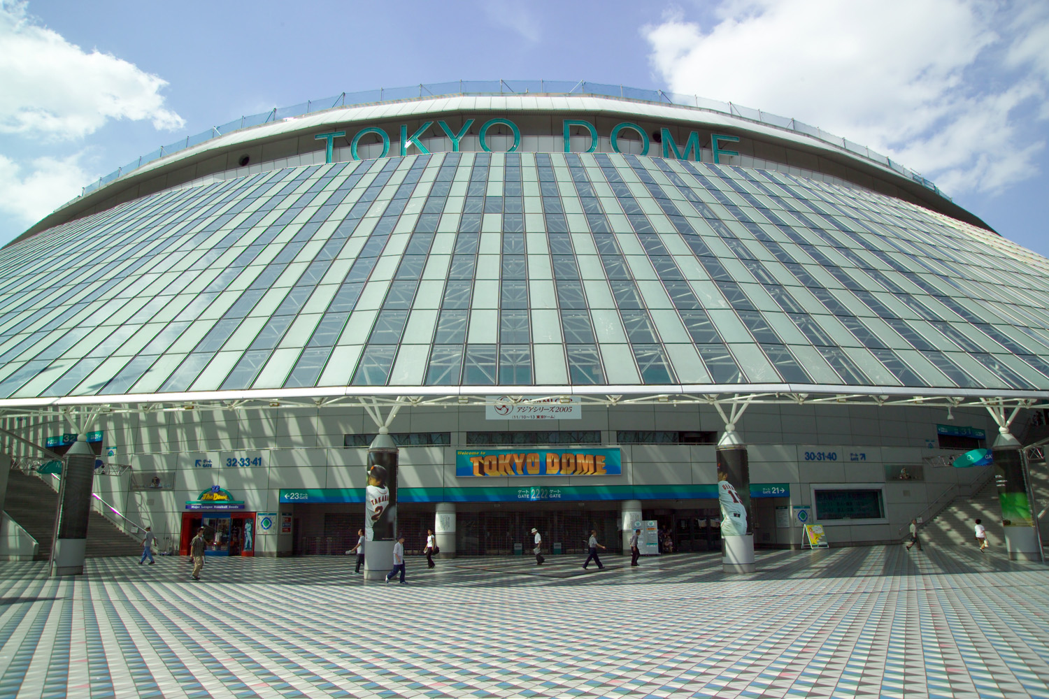 Tokyo Dome baseball stadium, adjacent to Suidobashi Station on JR Chuo-Sobu Line,Tokyo, Japan. I took the photo and release all my rights in this file to the public domain. Individuals and organizations retain rights to their images in the file.